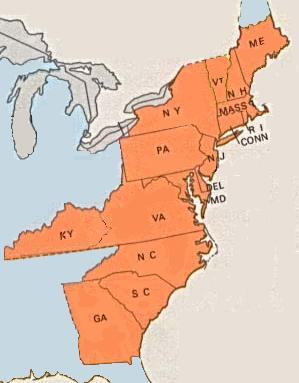 Map of the United States district courts established by the United States Congress through the Judiciary Act of 1789. District and state boundaries were concurrent, although Virginia and Massachusetts each had two districts within its bounds. Massachusetts was divided into the District of Maine (which was then part of Massachusetts) and the District of Massachusetts (which covered present-day Massachusetts). Virginia was divided into the District of Kentucky (which was then part of Virginia) and the District of Virginia (which covered present-day Virginia and West Virginia).